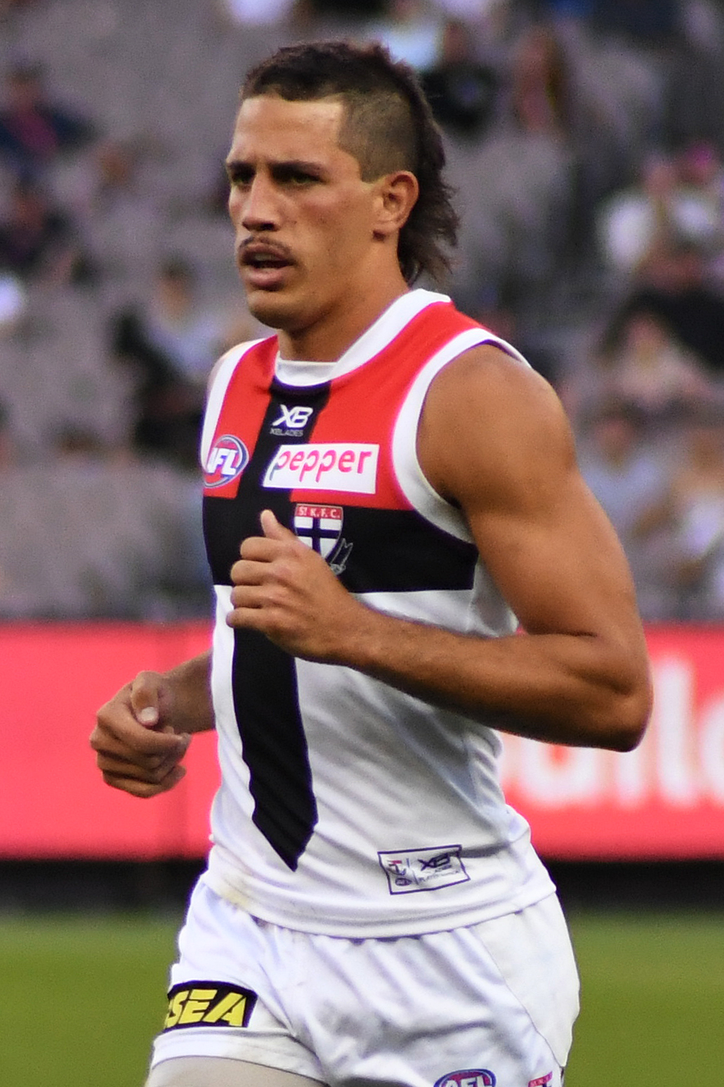 Ben Long of St Kilda during the 2019 AFL round 5 match between Melbourne and St Kilda at the Melbourne Cricket Ground on Saturday, 20 April 2019 in Melbourne, Victoria.